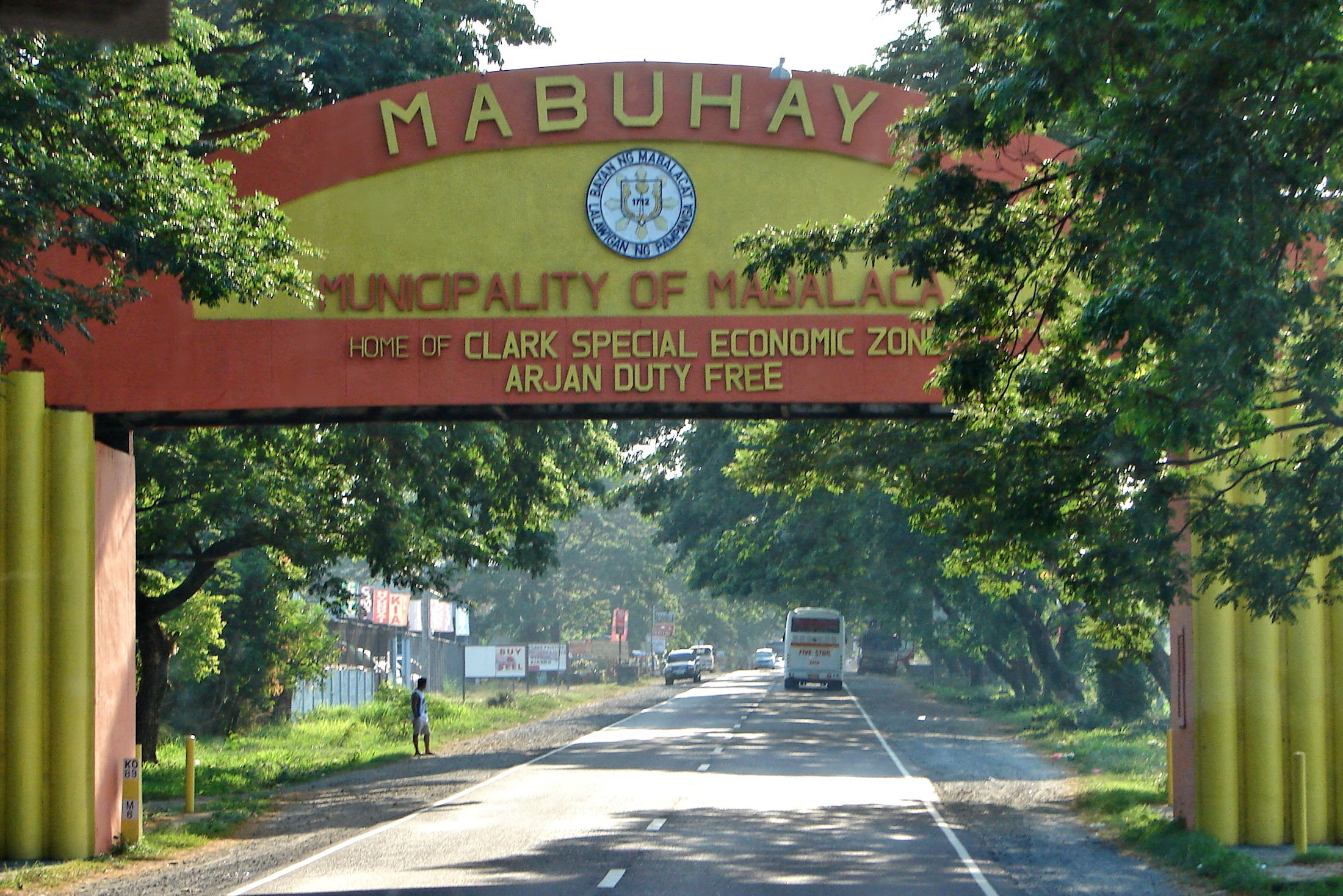 Welcome arch, Mabalacat, Pampanga, Philippines